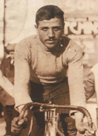 Ugo Agostoni (March 27, 1893 at Lissone, Italy – September 26, 1941 at Desio, Italy is a former Italian professional road bicycle racer.